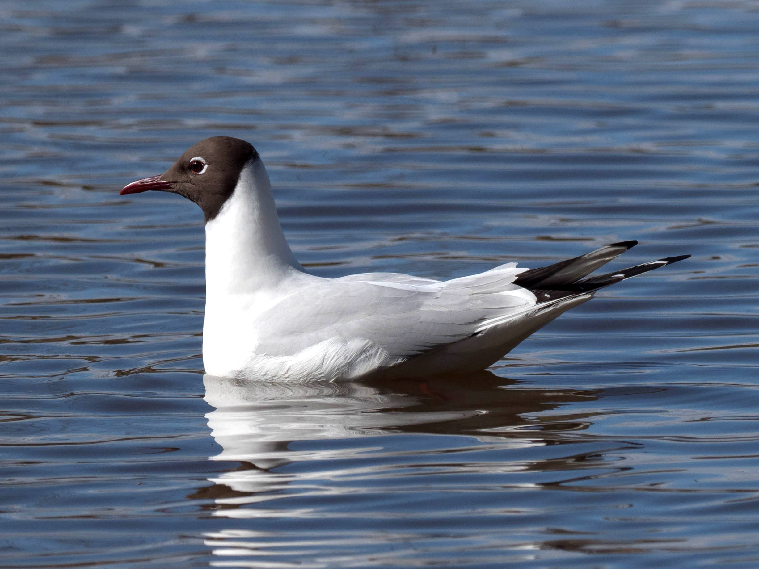 Chroicocephalus ridibundus In Sweden